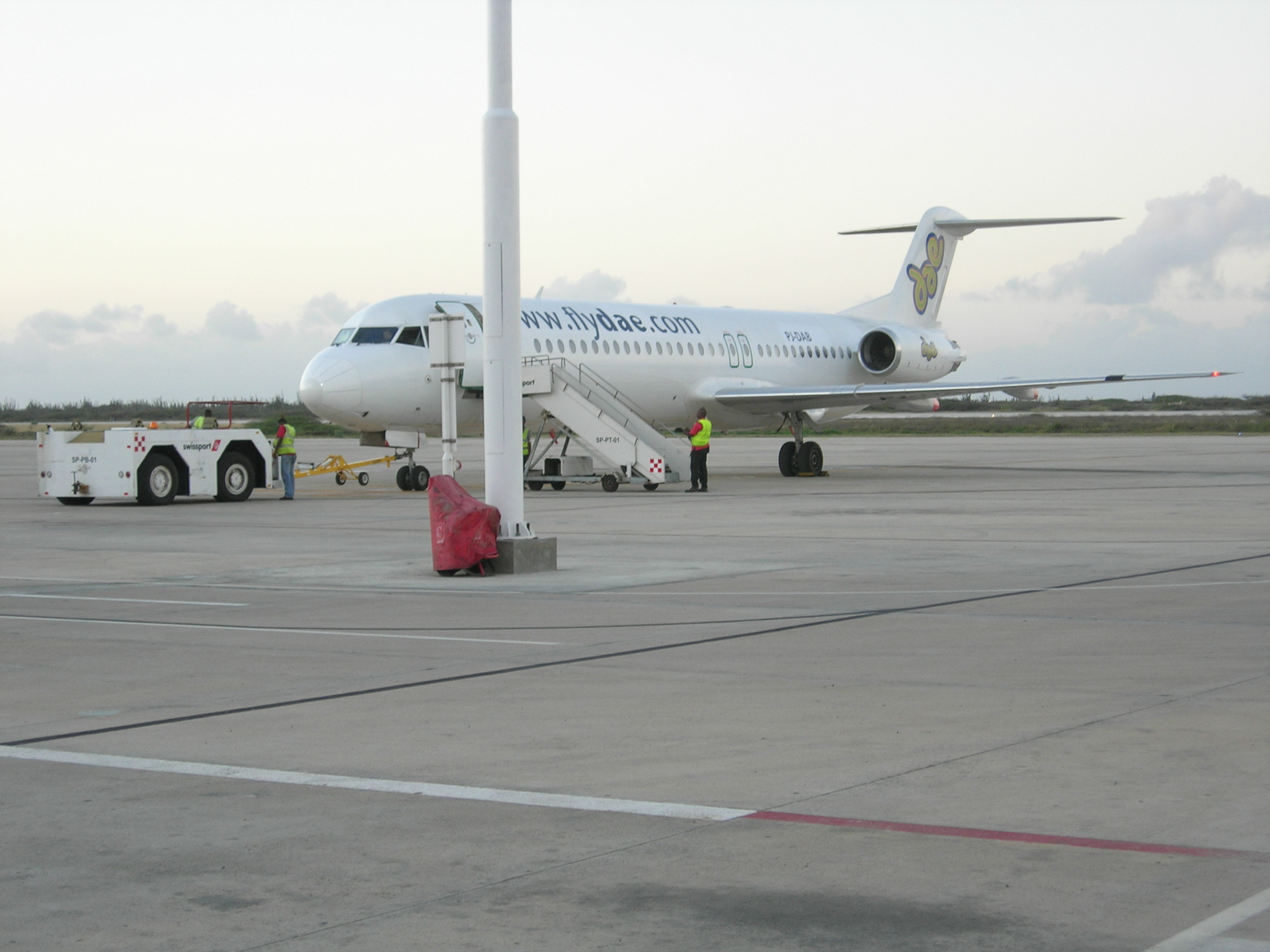 A Fokker 100 owned by Dutch Antilles Express